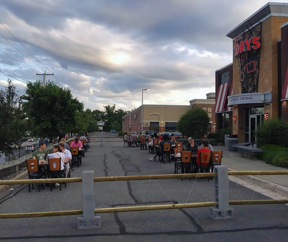 Improvised al fresco dining in front of a TGI Fridays in Newburgh, NY, USA, during the COVID-19 pandemic, after limited reopening has been allowed.